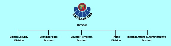 Ertzaintza's organizational diagram